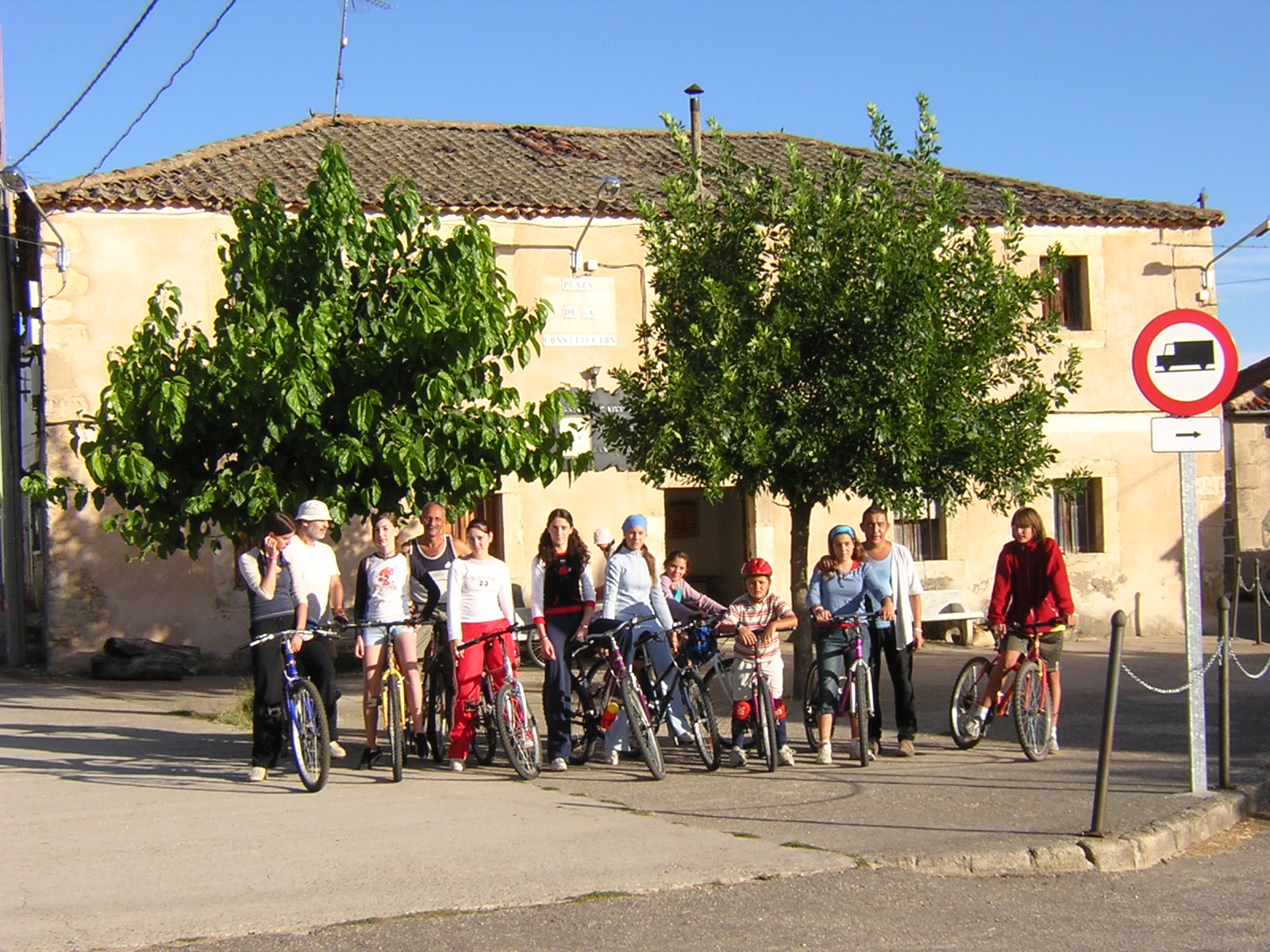 Duratón riding in bike.